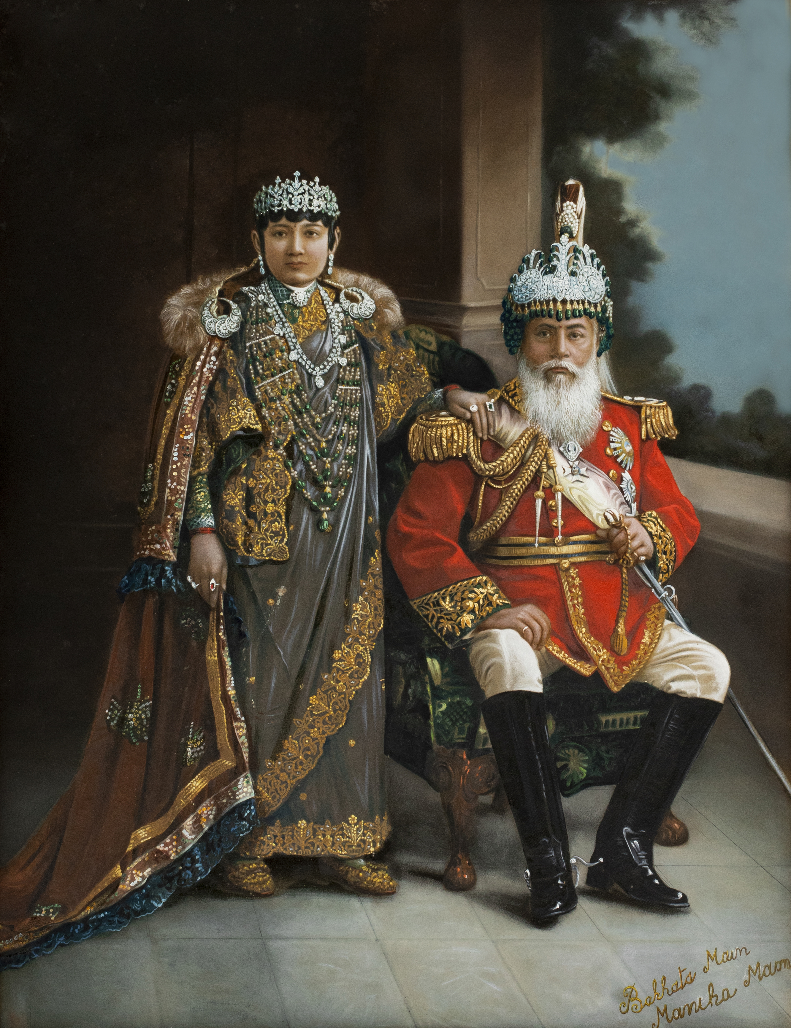 Painting upon the coronation of Maharaj Bhim Shumsher Jang Bahadur Rana, who is accompanied by his wife Her Highness Sri 3 Sita Bada Maharani Deela Kumari Devi on 26 November 1929.